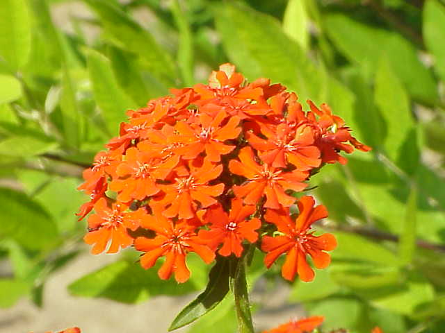 Name Lychnis chalcedonica Family Caryophyllaceae Image no. 1